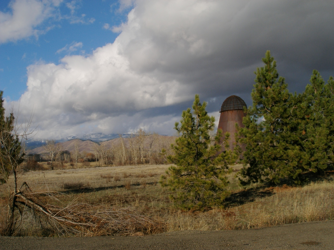 A wood waste burner, known as a teepee burner or wigwam burner, near Halfway, Oregon